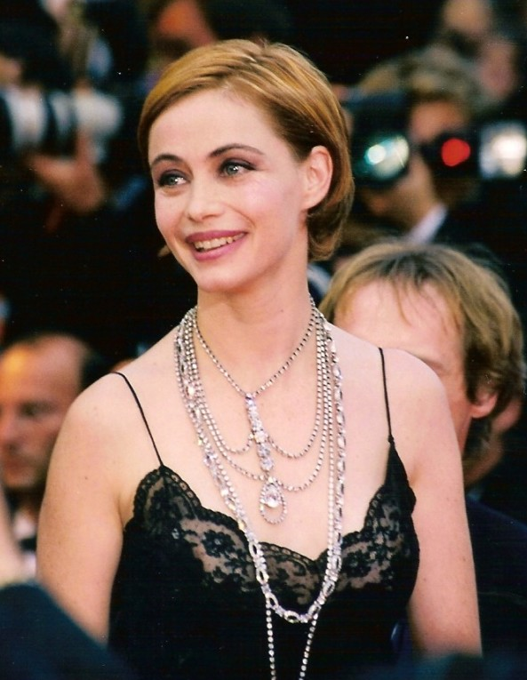 Emmanuelle Béart